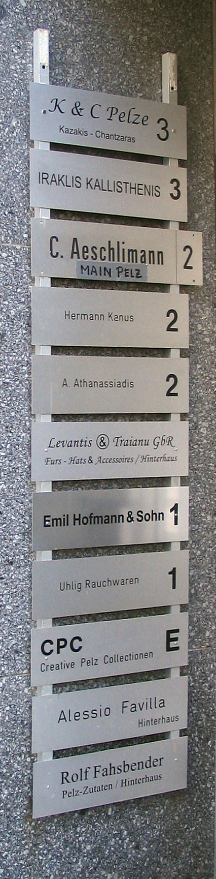 Niddastraße, Haus Leipzig